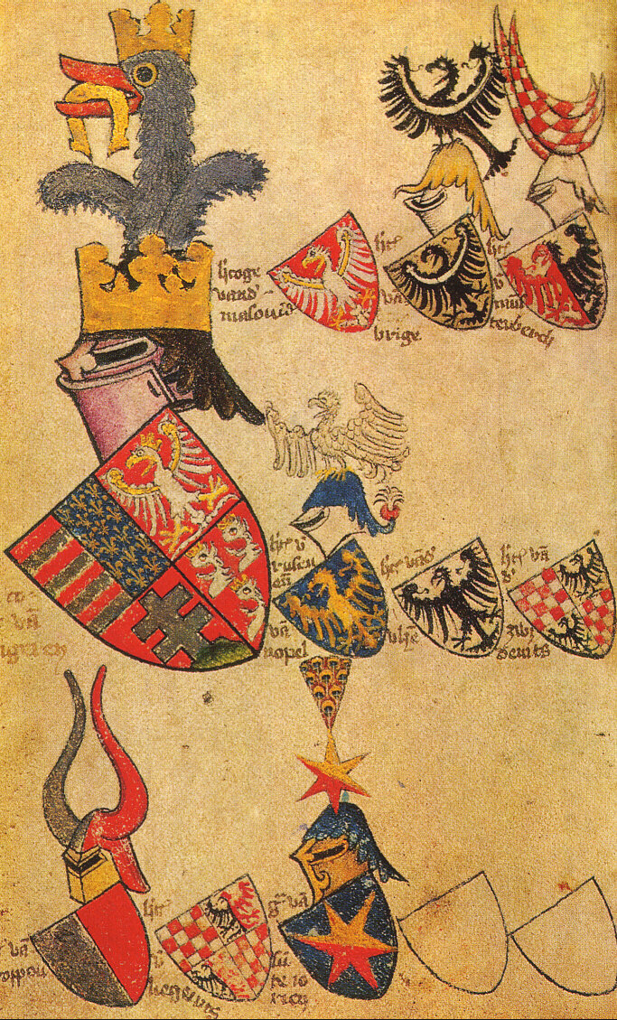 Page out of the Armorial Gelre. Folio 52v de l' Armorial de Gelre Top left Louis's coat of arms showing, clockwise from upper left: the ancient arms of Hungary dimidiated with France; the Polish eagle; the modern arms of Hungary; the Croatian/Dalmatian lions' heads. .